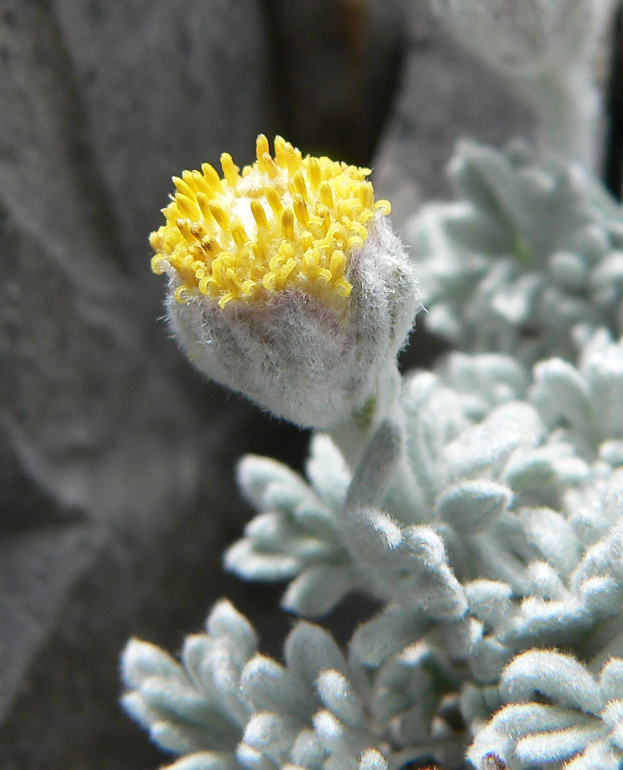 Sphaeromeria compacta alongside the North Loop trail on the NW slope of Charleston Peak, Spring Mountains, southern Nevada (elev. about 3500 m)